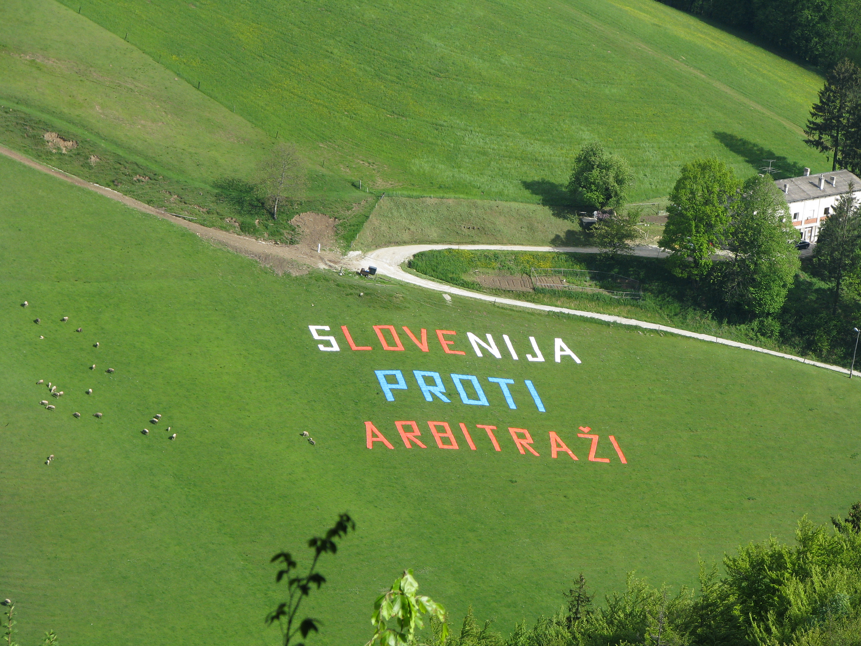 The inscription "Slovenia against the Arbitration" (referring to the Slovenian referendum on the arbitration agreement between Slovenia and Croatia scheduled for 6th June 2010) on sheep pasture of the former Slovenian Minister for Agriculture, Forestry and Food Ciril Smrkolj (SLS) above the village of Šentožbolt. The inscription, which is visible from the A1 motorway, was installed there by the so-called "Zavod 25. junij" society.